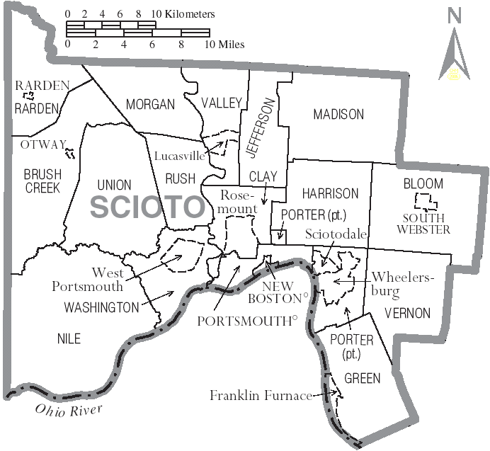 Map of Scioto County, Ohio, United States with township and municipal boundaries